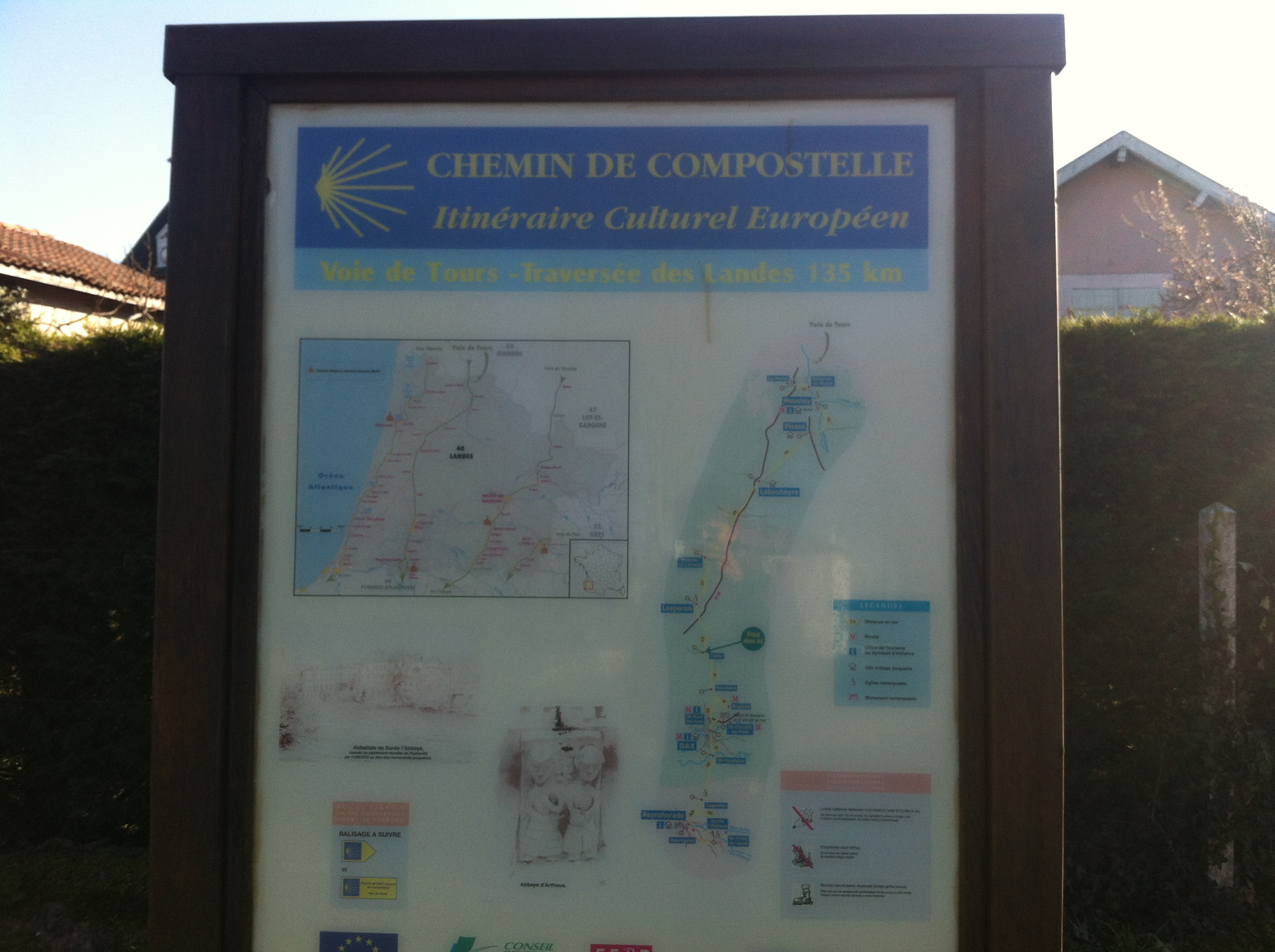 Board with yhe Itinirary of the "Chemin the Compostelle"